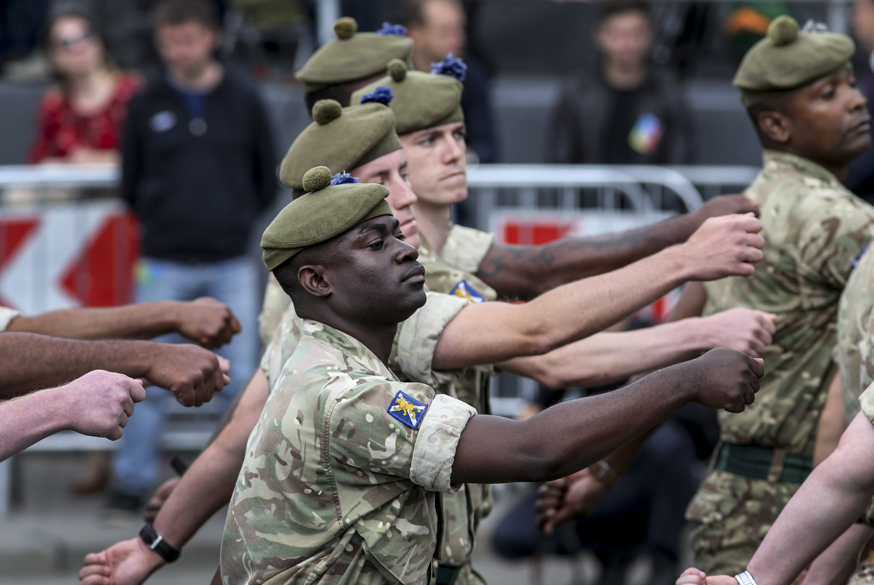 Independence Day military parade in Kyiv. August 24th, 2017